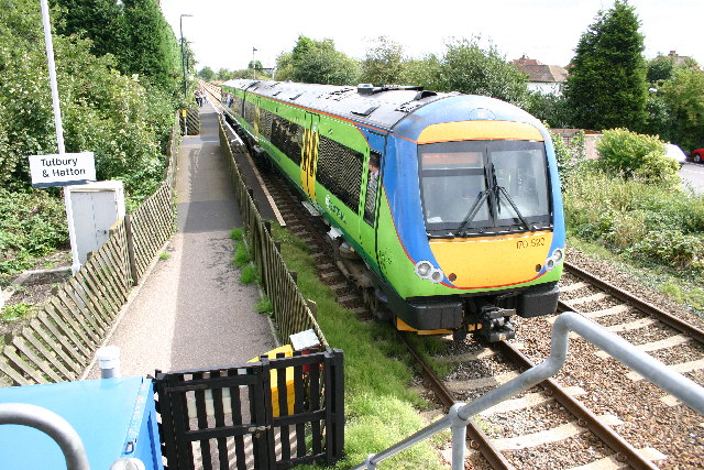 A Skegness-bound Class 170 train arrives at Tutbury and Hatton railway station.